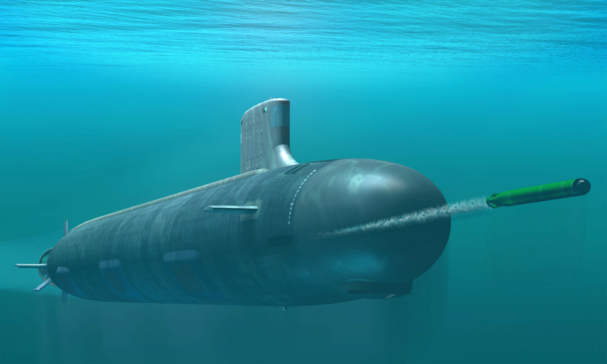 This conceptual drawing shows the new Virginia-class attack submarine now under construction at General Dynamics Electric Boat in Groton, Conn., and Northrop Grumman Newport News Shipbuilding in Newport News, Va. The first ship of this class, USS Virginia (SSN 774) is scheduled to be delivered to the U.S. Navy in 2004.